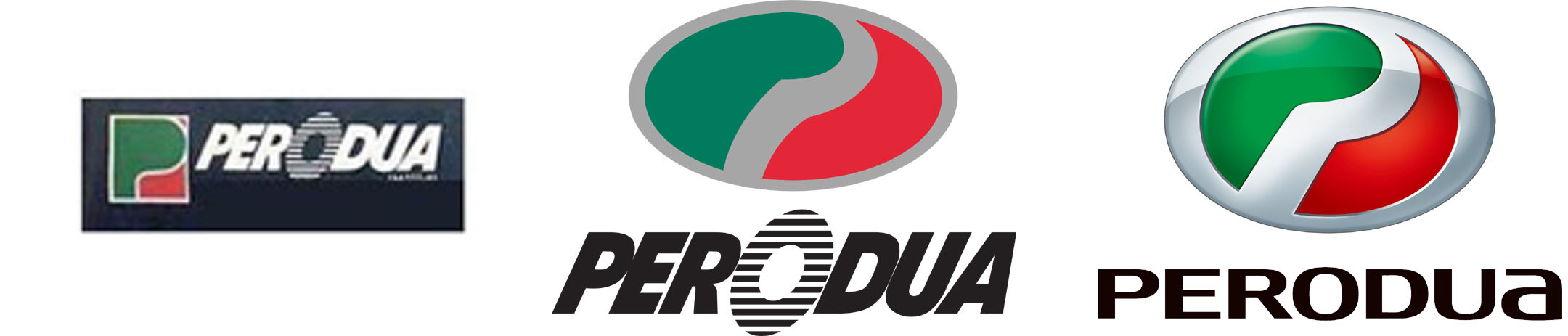 The Perodua Evolutionary line since 1998